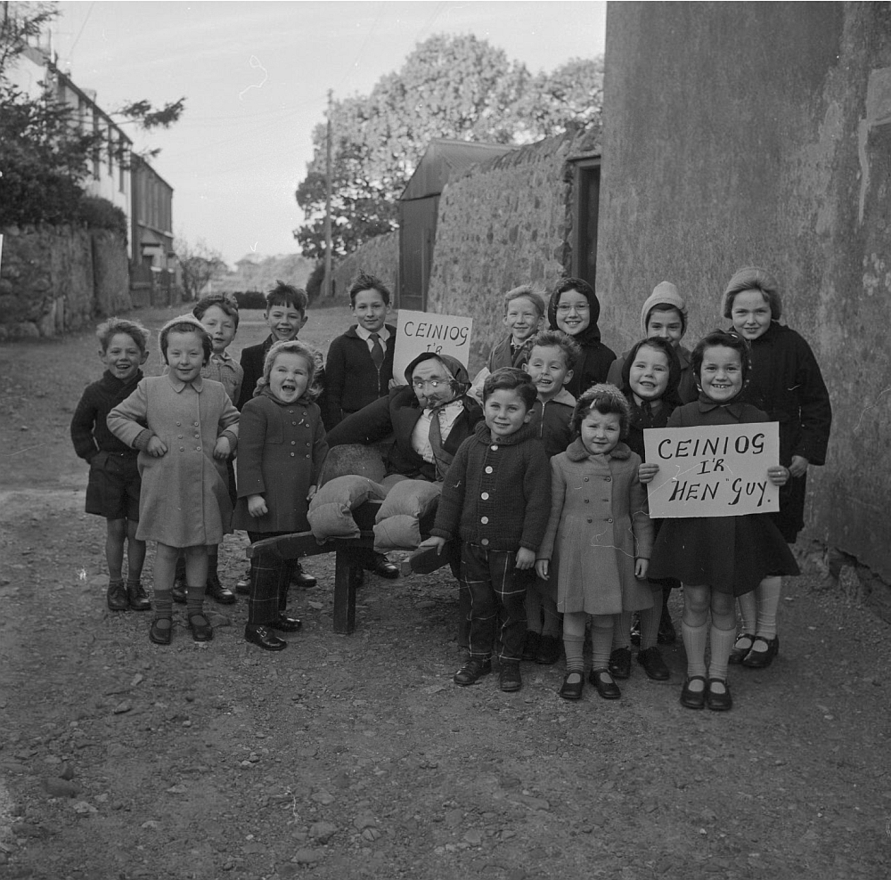 Teitl Cymraeg/Welsh title: Plant y Bontnewydd Caernarfon yn casglu i'r "Guy" Ffotograffydd/Photographer: Geoff Charles (1909-2002) Dyddiad/Date: 1/11/1962 Cyfrwng/Medium: Negydd ffilm / Film negative Cyfeiriad/Reference: (gch29006) Rhif cofnod / Record no.: 3471391 Rhagor o wybodaeth am gasgliad Geoff Charles yn Llyfrgell Genedlaethol Cymru More information about the Geoff Charles Collection at the National Library of Wales Mae ffotograffau Geoff Charles hefyd yn rhan o Broject Europeana Libraries Geoff Charles' photographs also form part of the Europeana Libraries Project